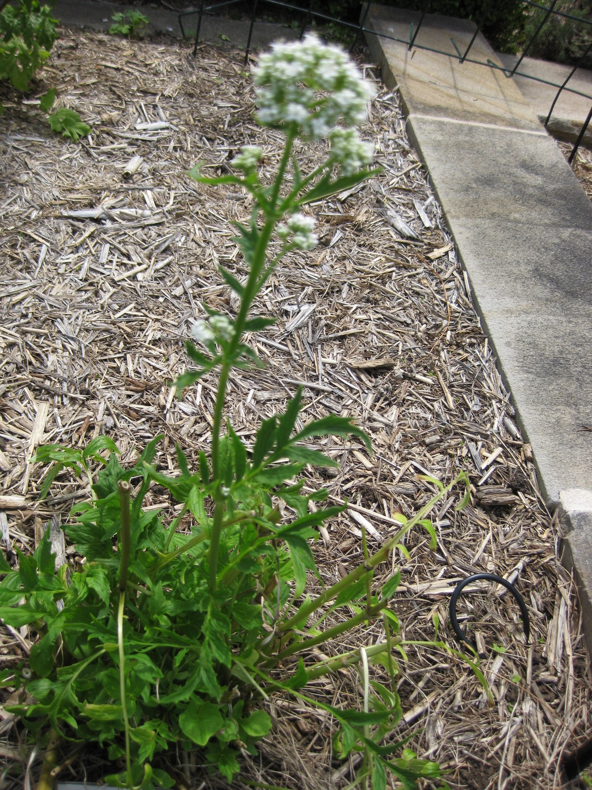 Photographed at the Royal Botanic Gardens Sydney (Australia) in January